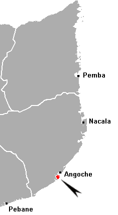 I created this image mainly by modifying 50px, a picture in the public domain, as it was generated by a user, using free sources available at The Map Library.